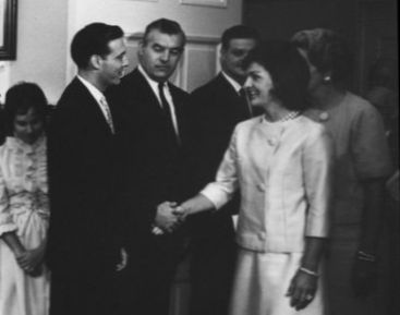 AR7326-E. Presentation Ceremony of First White House Guide Book to President John F. Kennedy and First Lady Jacqueline Kennedy. John F. Kennedy Presidential Library and Museum.